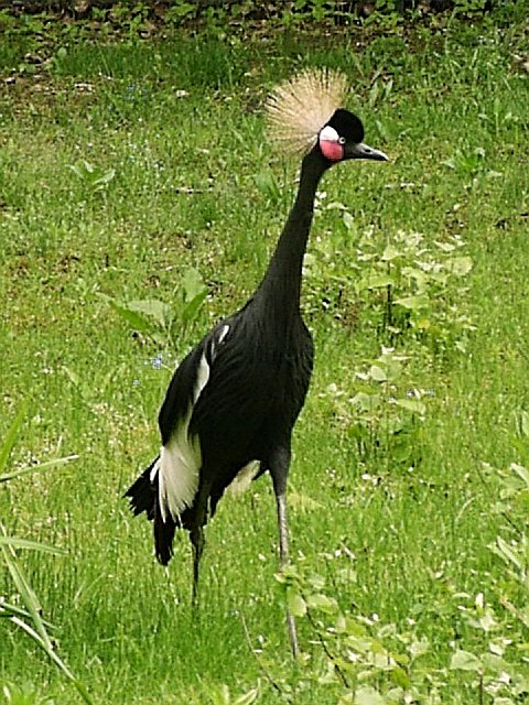 Black crowned crane in zoo Tierpark Friedrichsfelde, Berlin, Germany. 22 May 2005. Public Domain.